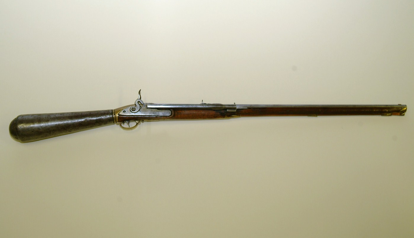 A Girandoni System Austrian Repeating Air Rifle, Circa 1795, believed to have been taken on the Lewis & Clark Army Corps of Discovery Expedition 1803-1806.